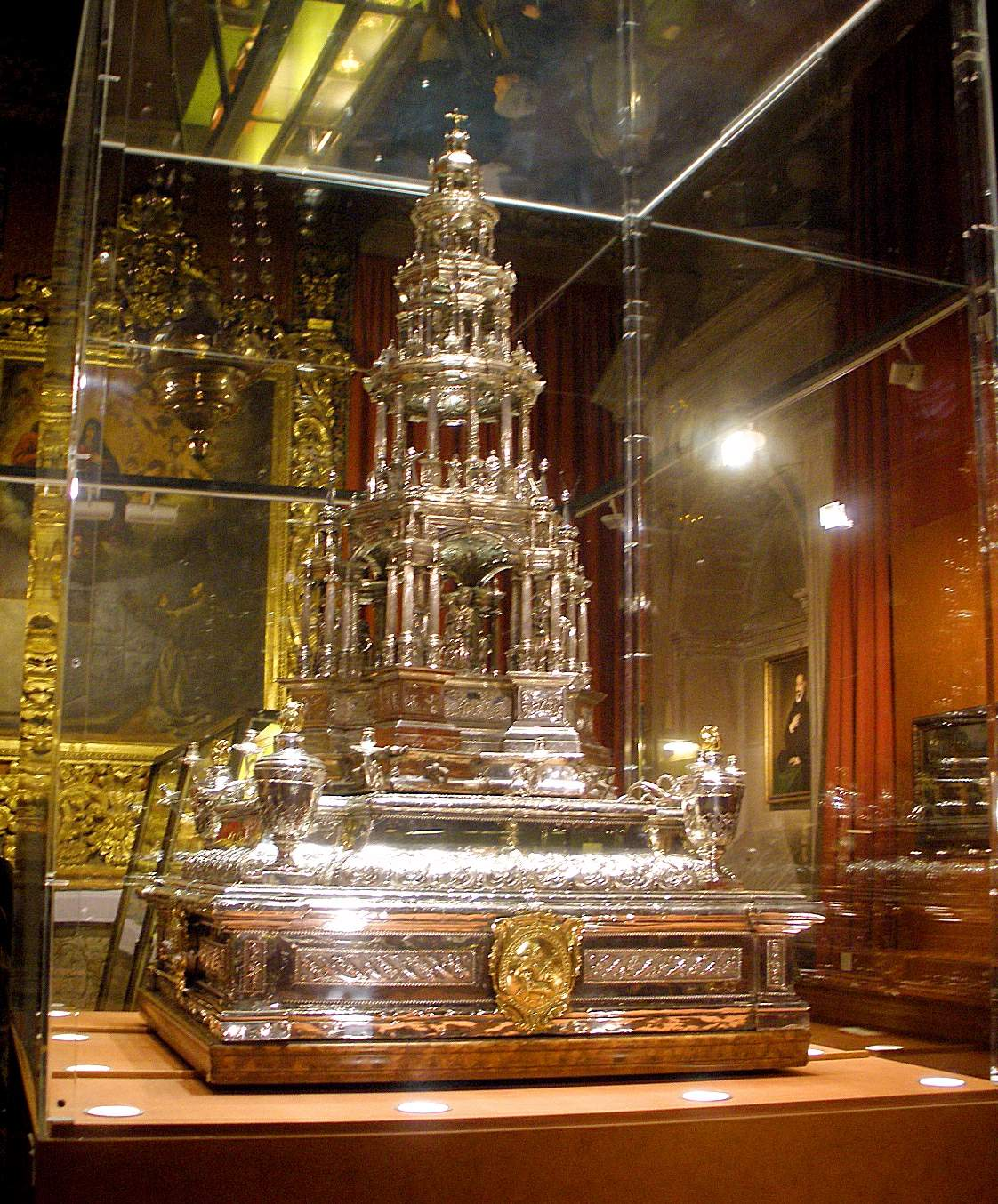 Custodia de Juan de Arfe en la Catedral de Ávila